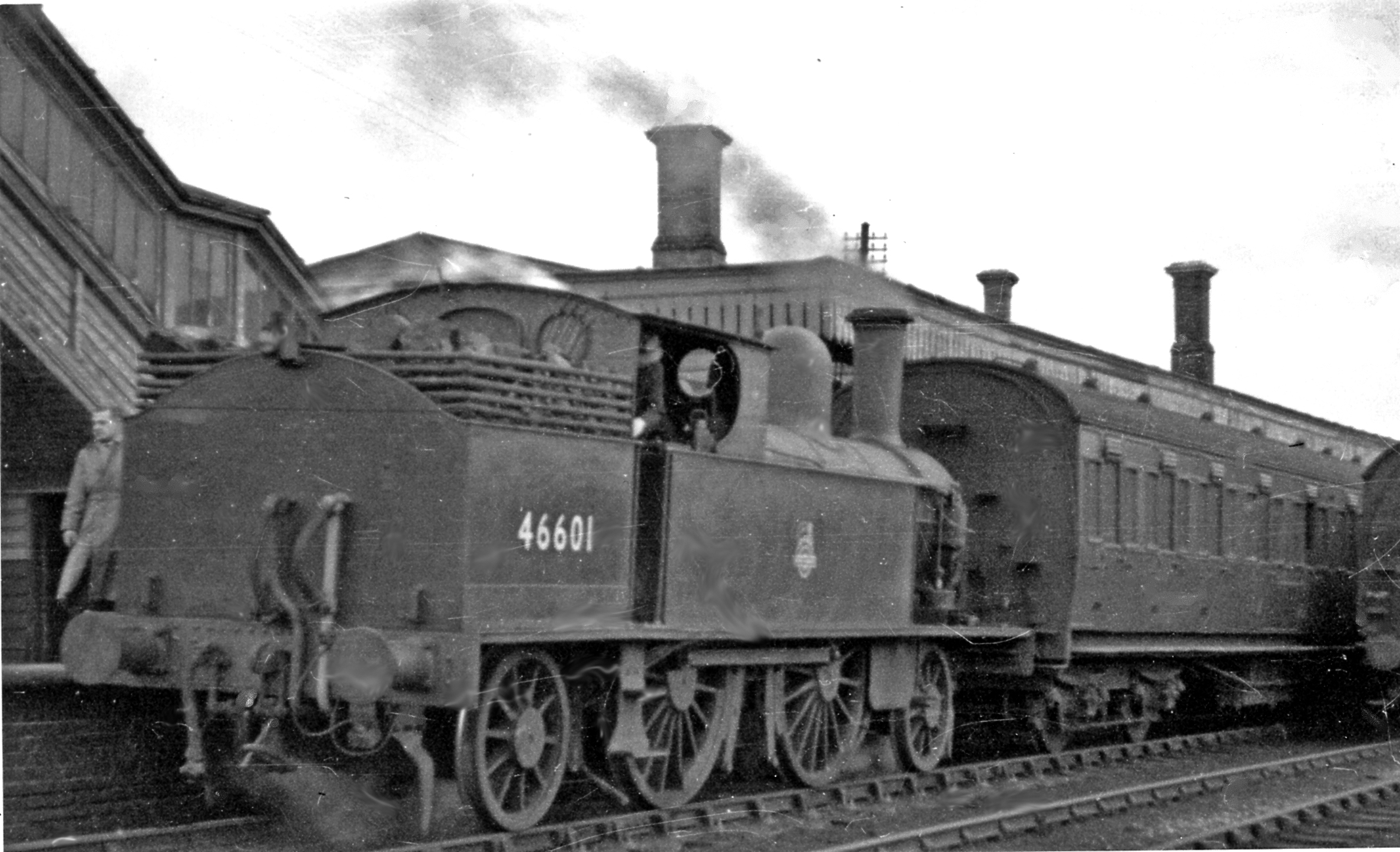 Ex-LNW 2-4-2T on Aylesbury train at Cheddington on the Last Day. View SE, towards London on the WCML, junction of the branch to Aylesbury High Street (closed to passengers 2/2/53, goods 2/12/63). One of the last trains, being on the Saturday stands at the branch platform at Cheddington, with ex-LNW Webb 5'6" 1P 2-4-2T No. 46601 (built c. 1890, withdrawn 10/53).